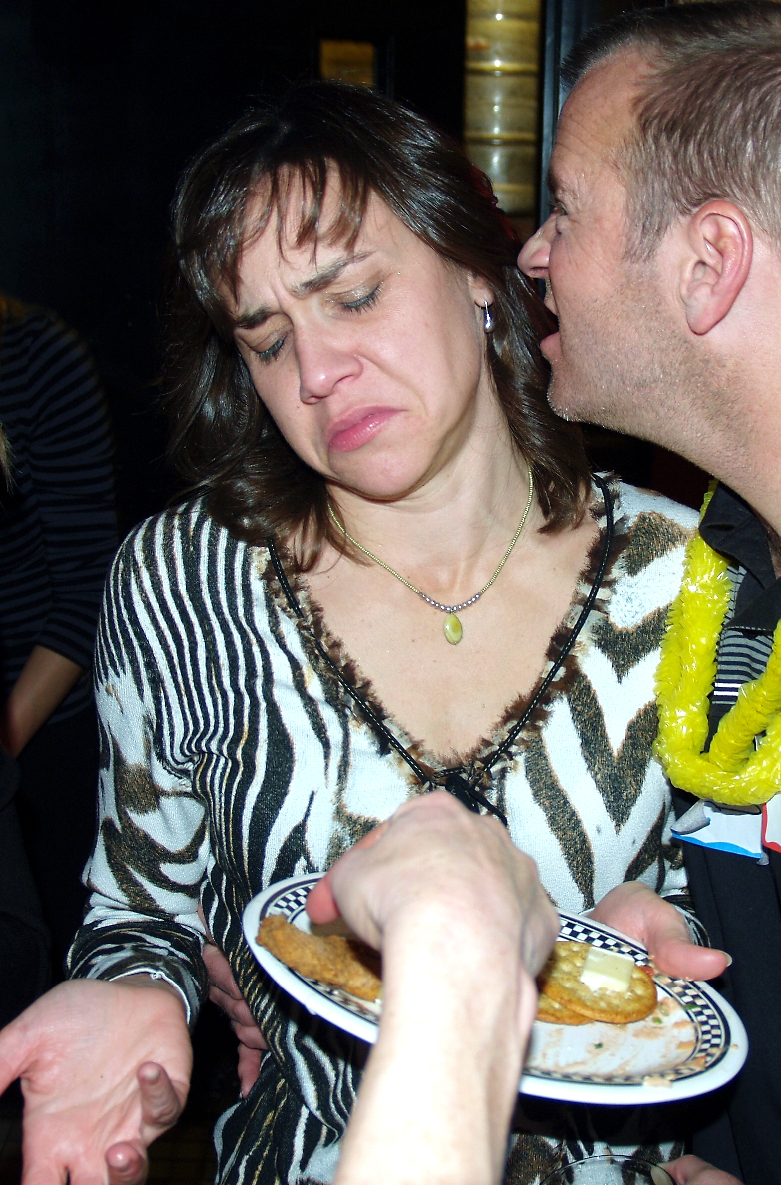 A woman with a look of disgust at establishment Southside Johnny's in downtown Colorado Springs, Colorado.